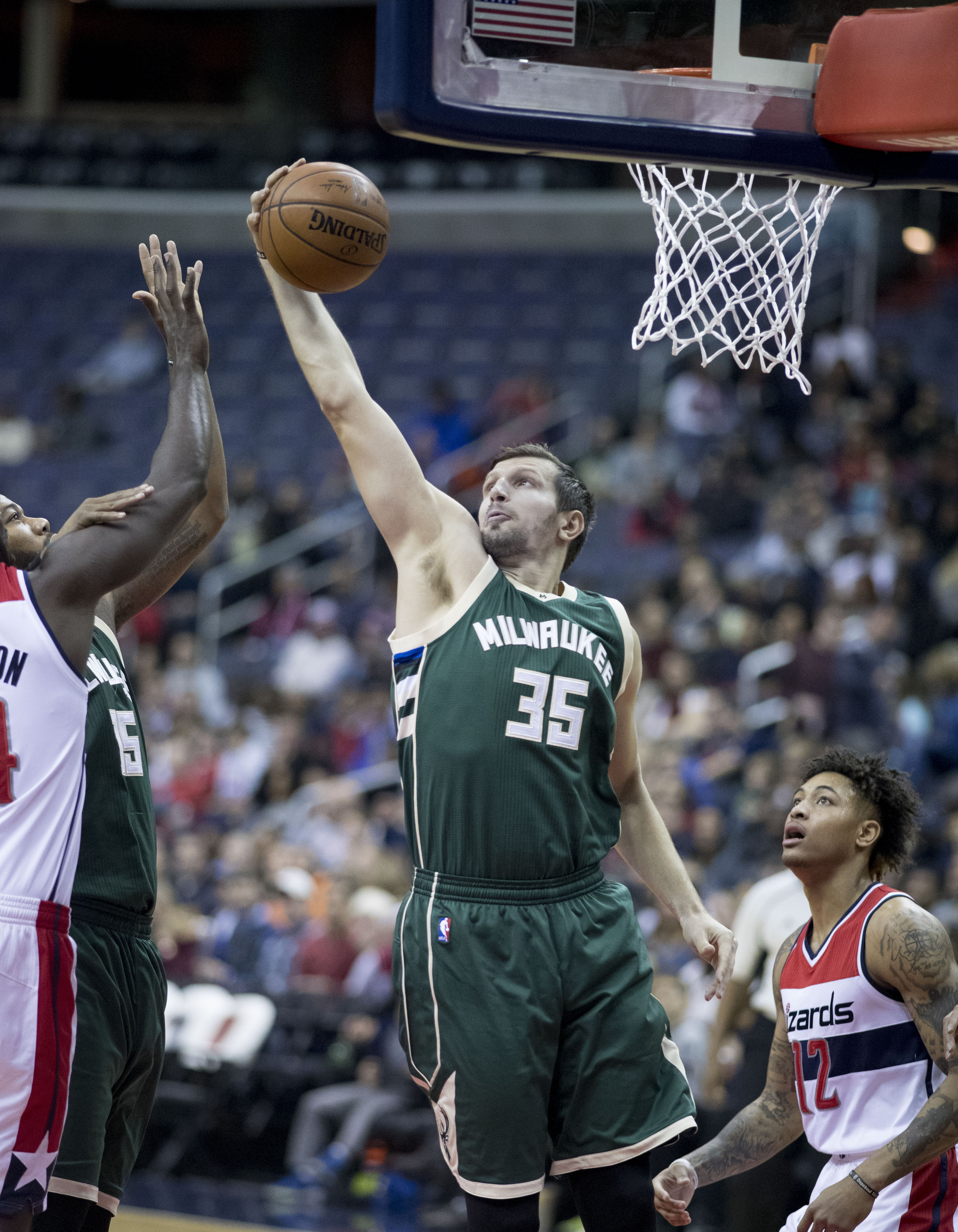 Bucks at Wizards 12/10/16